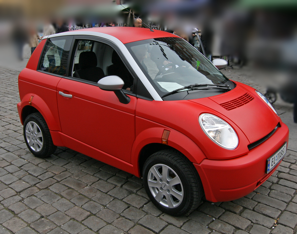 Think City 2008.